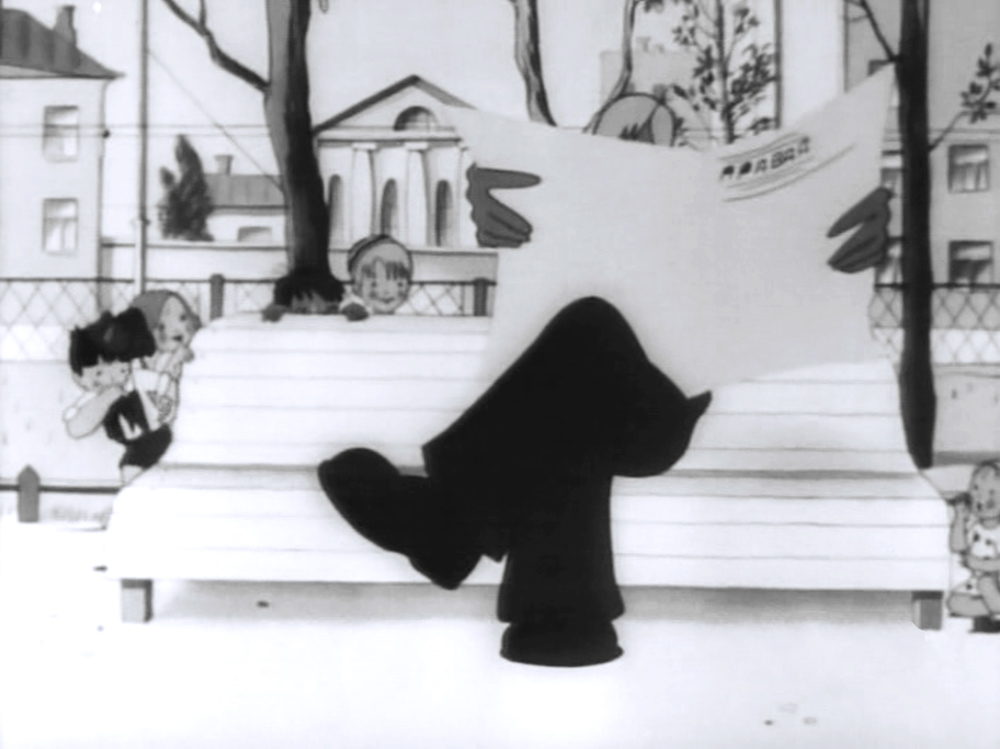 Uncle Styopa animated film, directed by Vladimir Suteev.